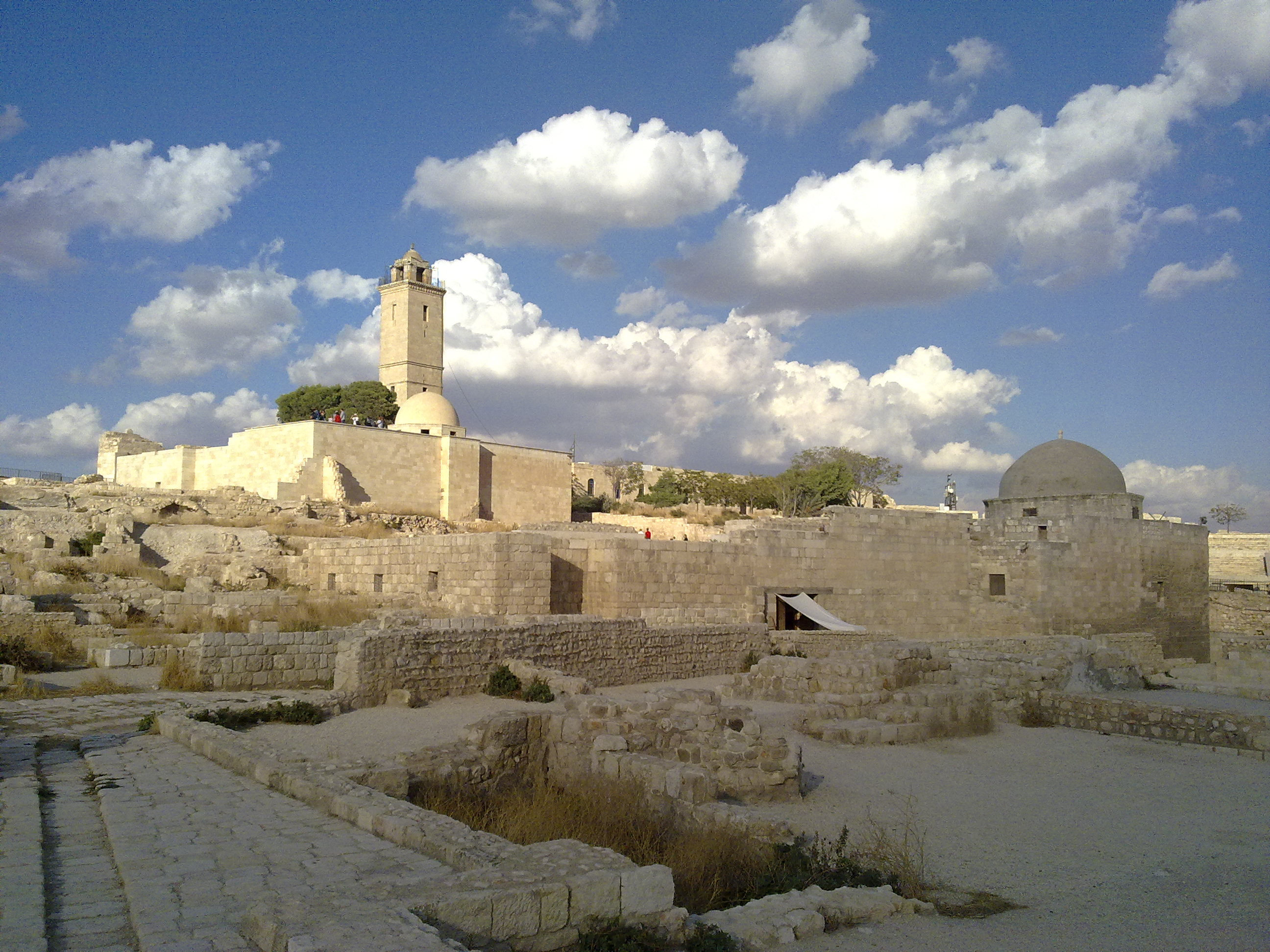 Castle Mosque - Aleppo Citadel